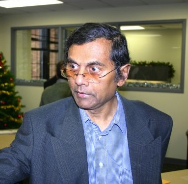 This photo was taken on the day of retirement at the Minnesota State University, Moorhead in 2007.